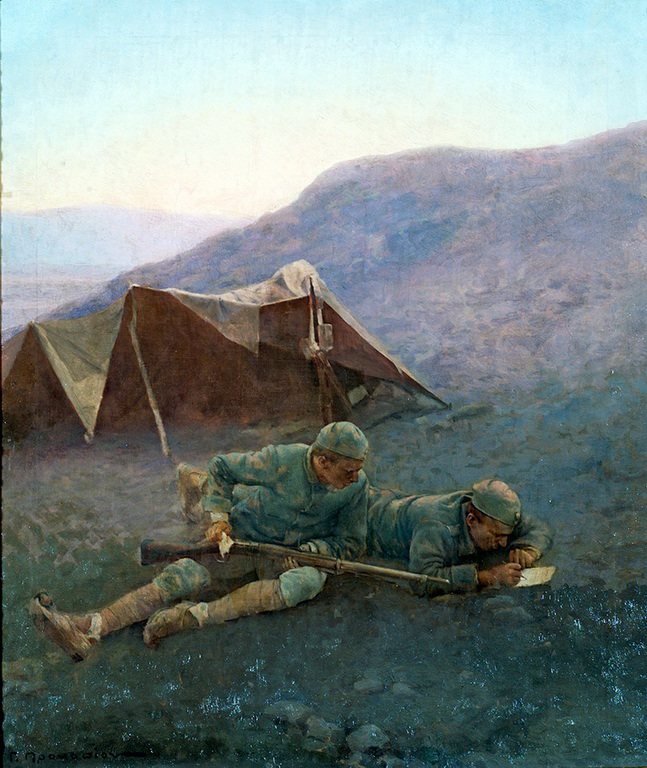 Resting in battlefrontTürkçe: Yunanların gözünden Türk Kurtuluş Savaşı'nın Batı Cephesi ("Küçük Asya Felaketi")